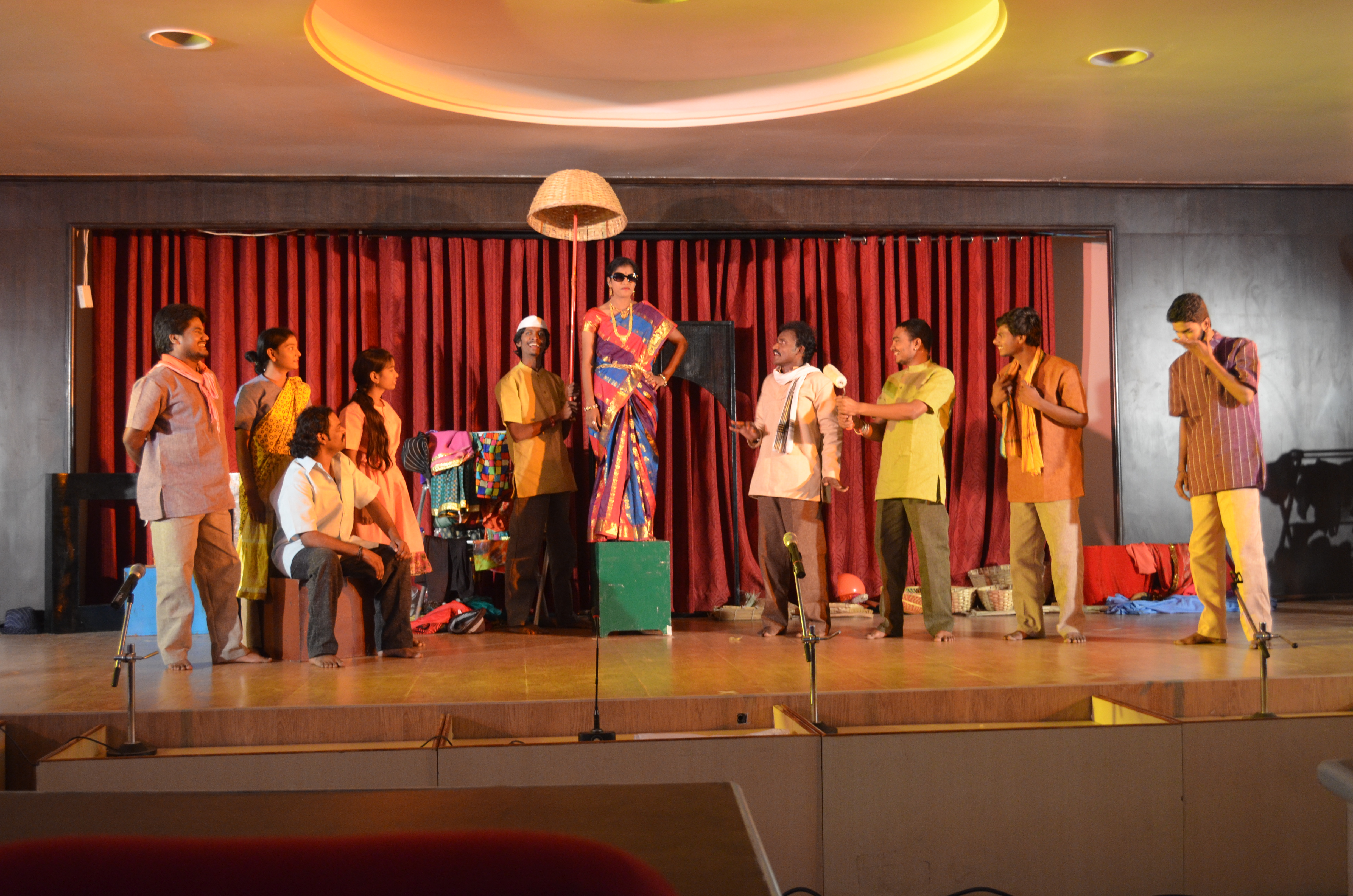 మిస్ మీనా